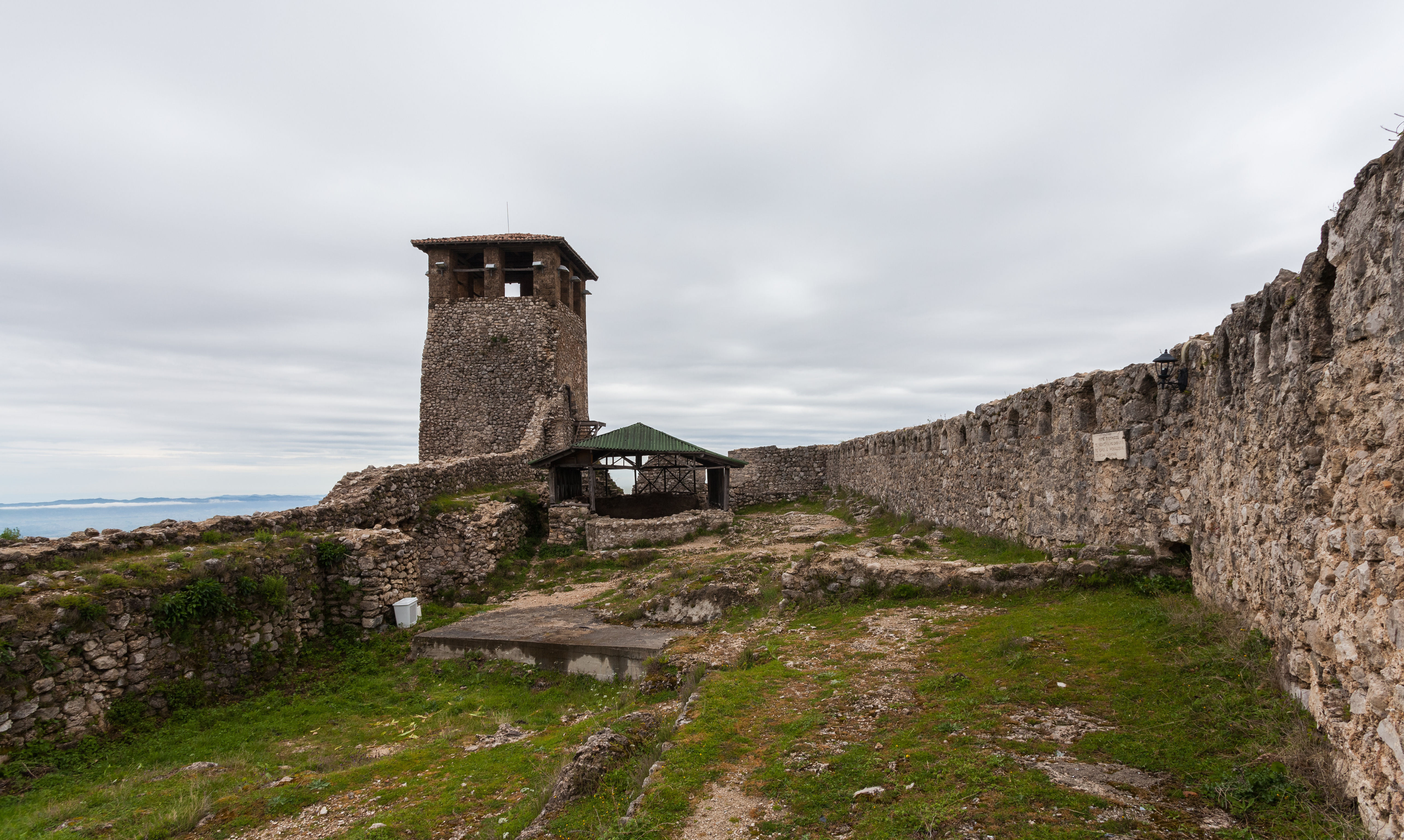 Kruja Castle, Kruja, Albania